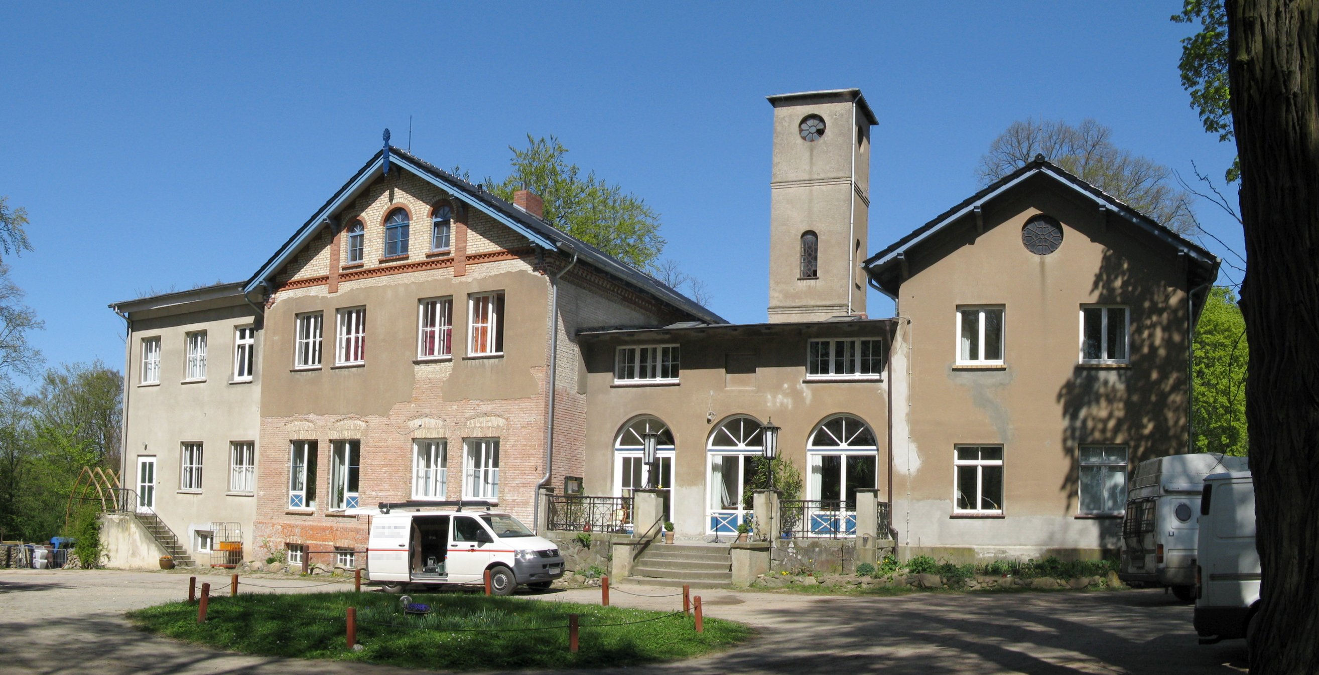 Hunting castle in Friedrichswalde, disctrict Parchim, Mecklenburg-Vorpommern, Germany